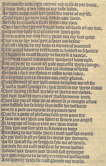 Scan of the Chepman and Myllar Prints